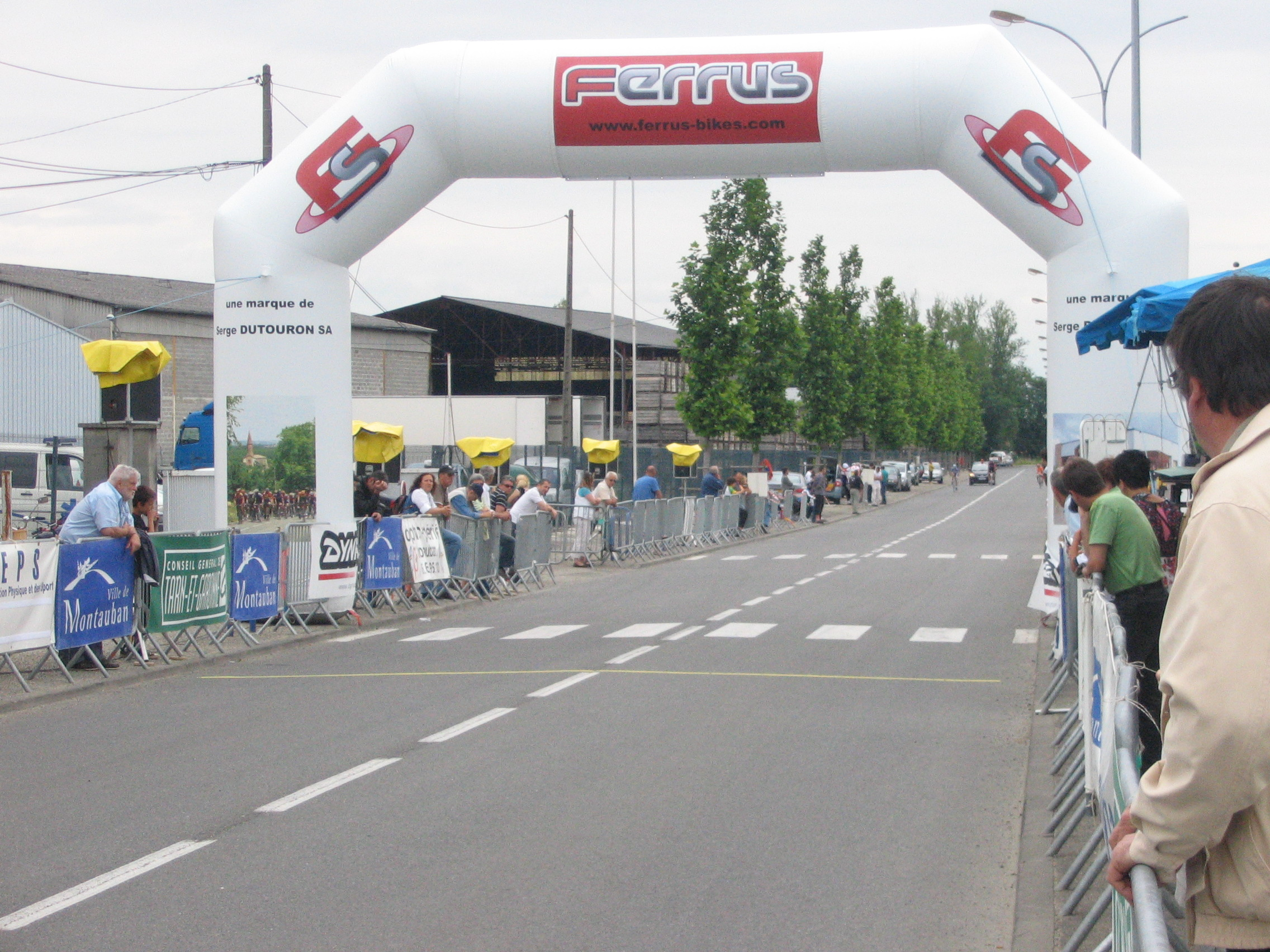 Finish of Tour du Tarn et Garonne 2008